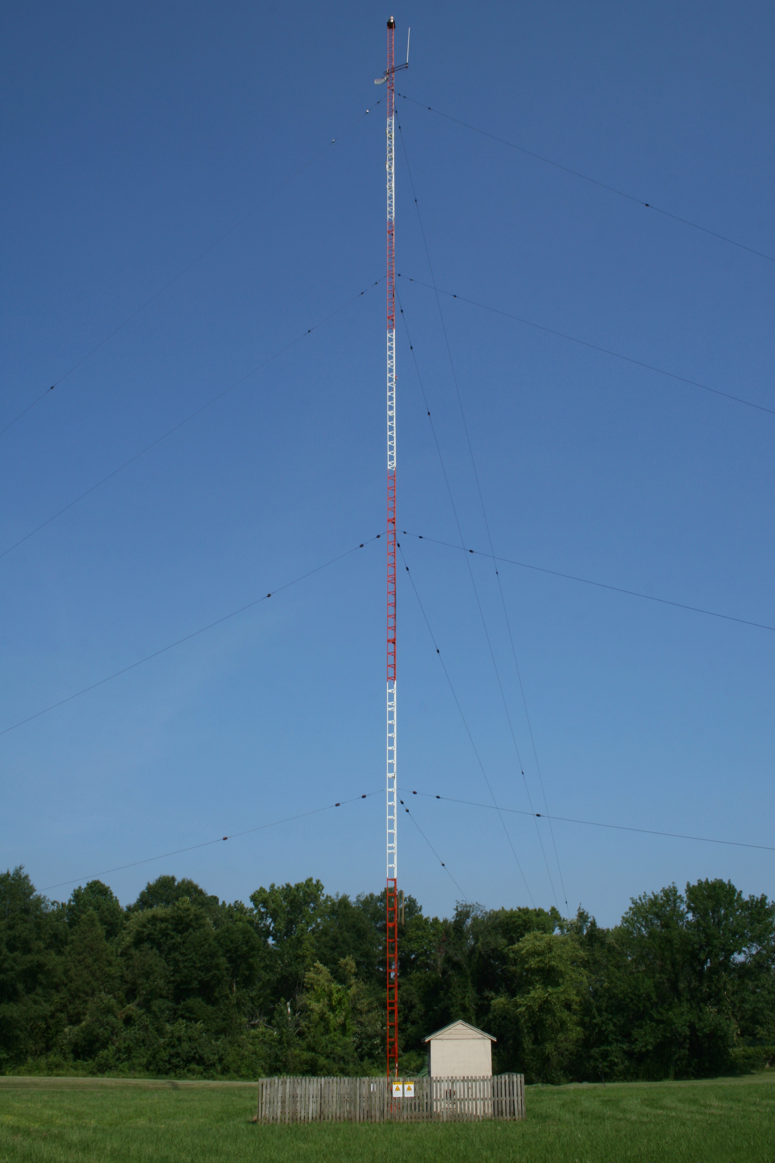 A mast radiator antenna for an AM radio station transmitter in Chapel Hill, North Carolina. The radio frequency current from the transmitter is applied directly to the steel lattice tower, which acts as a monopole antenna element. The tower is supported at its base by a massive porcelain insulator, which insulates it from the ground. The high voltage on the tower can deliver a dangerous shock to anyone that touches it, so it is surrounded by a fence to keep people out. The white shed is called a helix house and contains an antenna tuner matching network to match the impedance of the antenna to the transmitter to allow power to be transferred efficiently to the antenna. The mast is supported by guy wires (faint), which have strain insulators in them to prevent the high voltage on the tower from being conducted to ground.